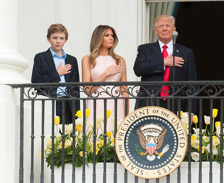 President Donald Trump, First Lady Melania Trump, and their son, Barron Trump, have their hands over their hearts while “The President's Own” U.S. Marine Band performs the National Anthem, Monday, April 17, 2017, kicking off the 139th Easter Egg Roll at the White House. This was the first Easter Egg Roll of the Trump Administration. (Official White House Photo by Joyce Boghosian)